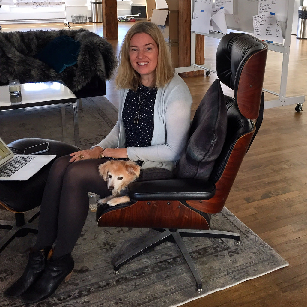 Virginia Heffernan